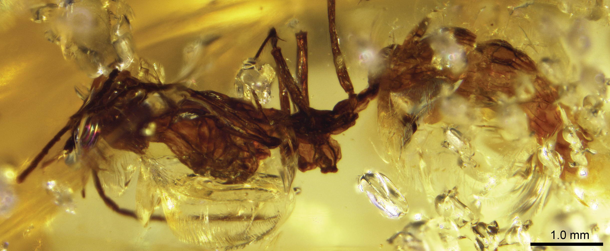 Figure 6. Gerontoformica rugusus (syn Sphecomyrmodes rugusus) holotype JZC Bu1648 photomicrographs. A. Lateral view of specimen, which is largely obscured by air inclusions from any single view.